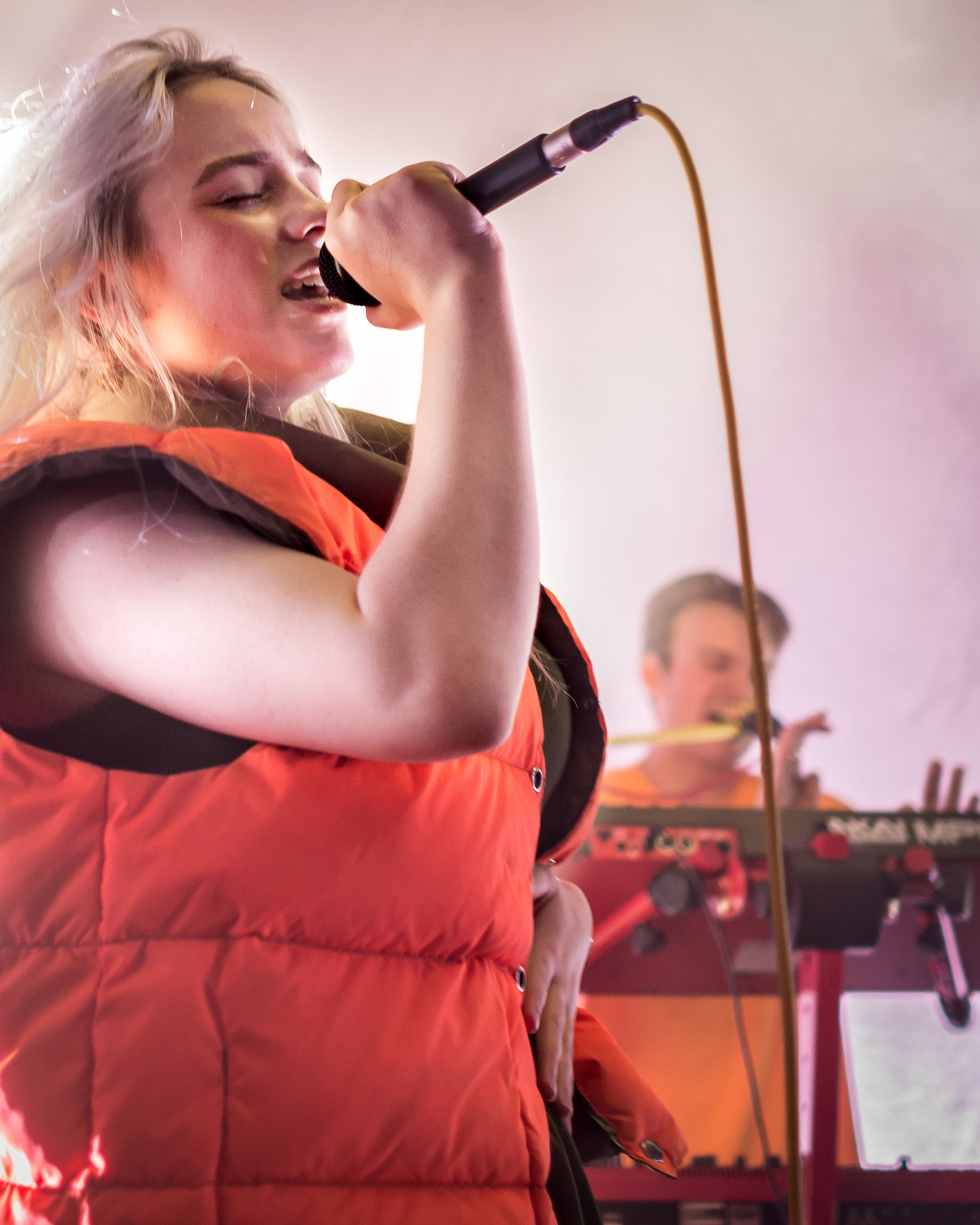 Billie Eilish performing live at The Hi Hat in Highland Park, Los Angeles, California, on Thursday, August 10, 2017.